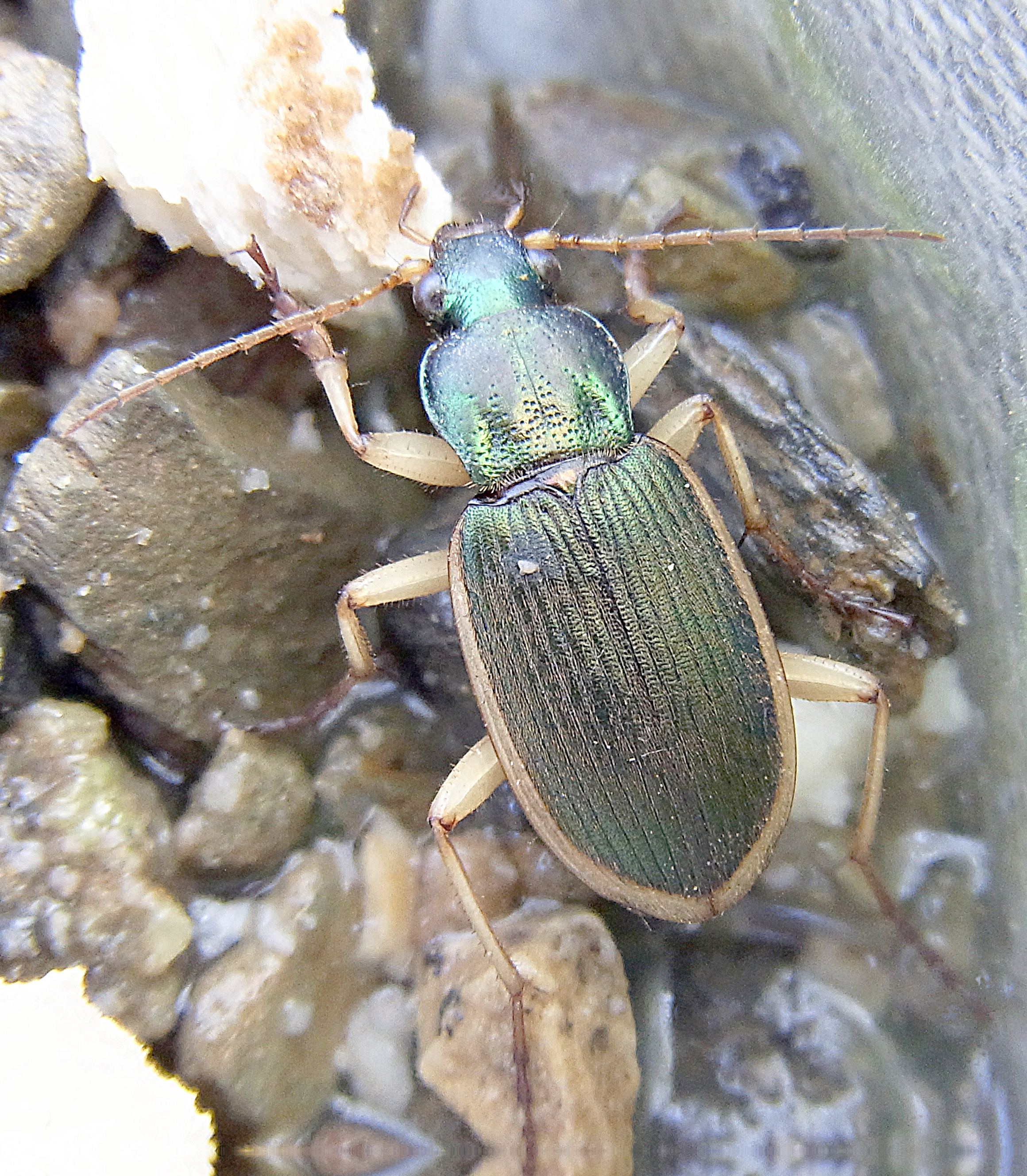 Chlaenius velutinus from Southern France north of Beziers at 2011-04-08